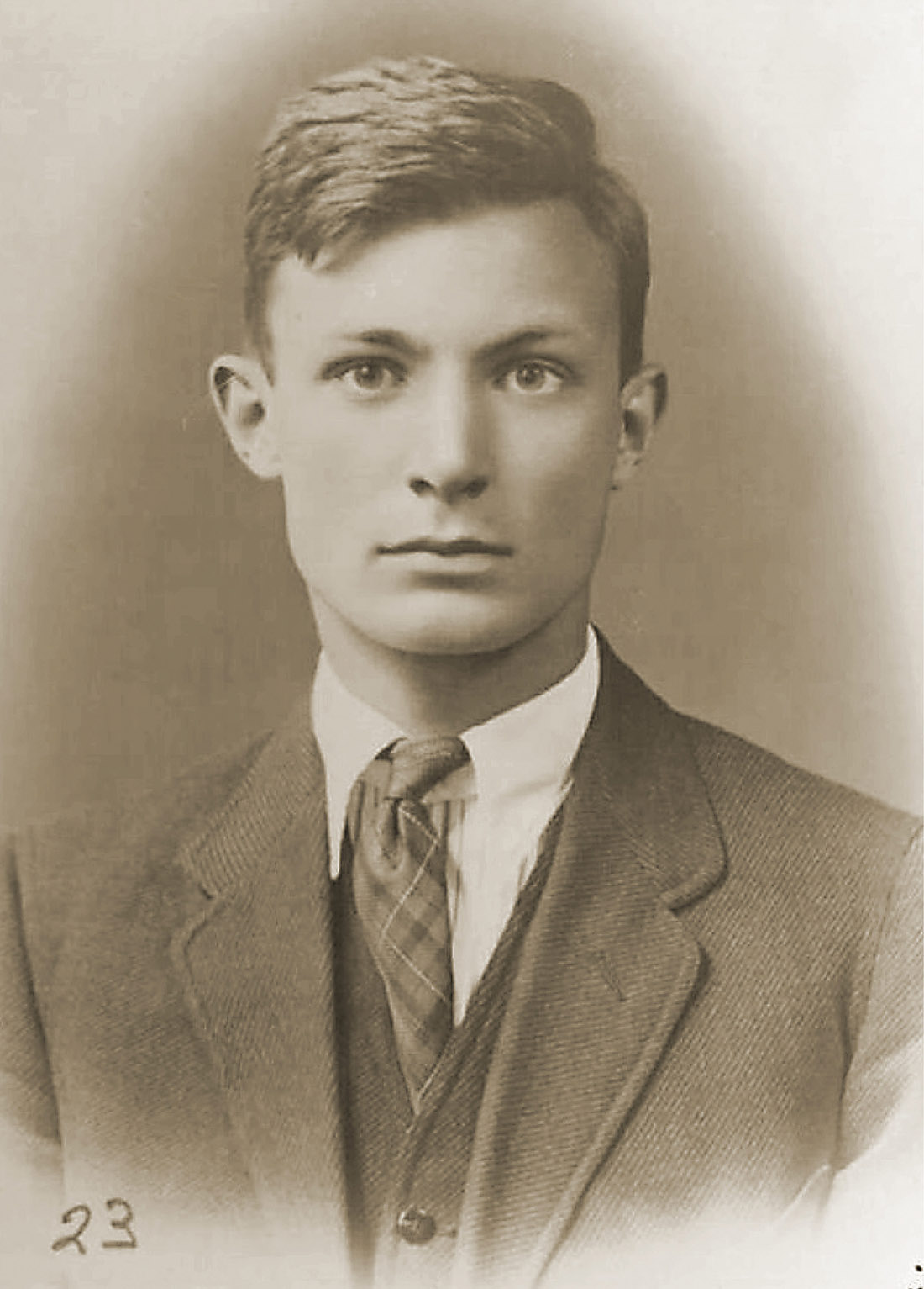 Harvie Branscomb, Rhodes Scholar from Alabama